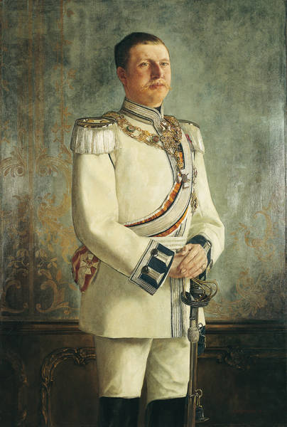 Gunther, Prince of Schwarzburg